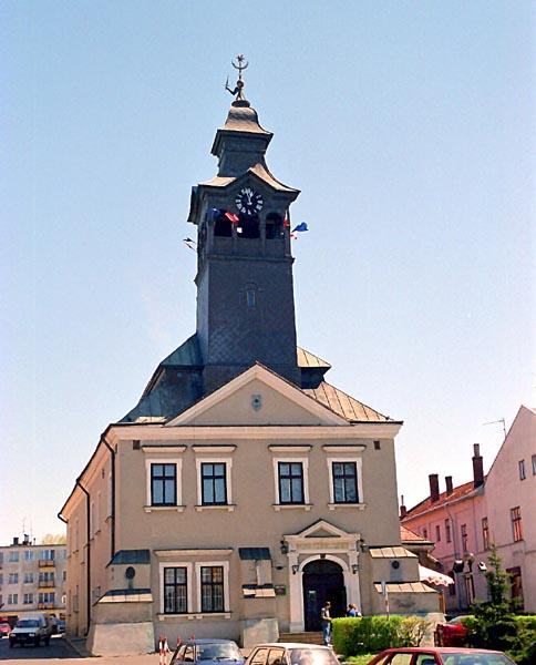 Przeworsk Town Hall in Poland